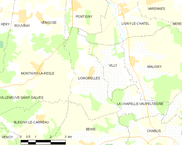 Map of French municipality Lignorelles